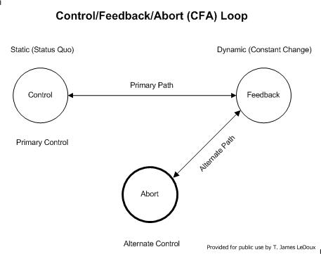 Control-Feedback-Abort Loop showing Abort highlighted